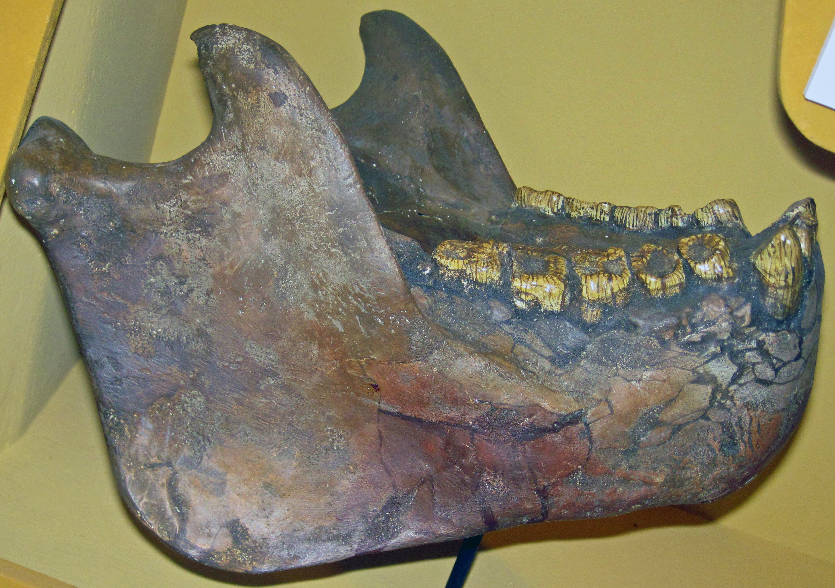 Gigantopithecus lower jaw (cast) from the Cenozoic of eastern Asia. Public display, Cleveland Museum of Natural History, Cleveland, Ohio, USA